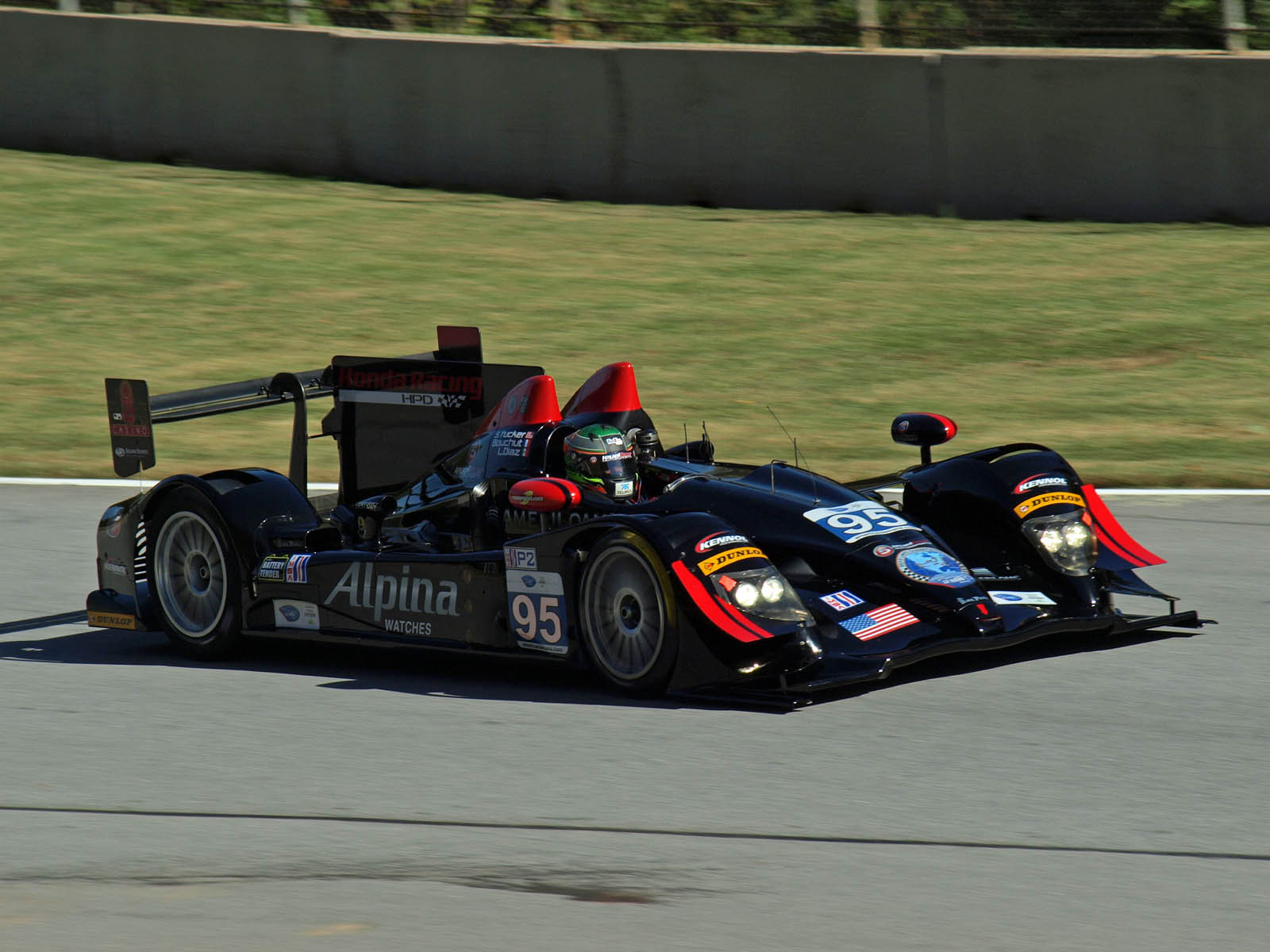 Luis Díaz in the Level 5 Motorsports HPD ARX-03b during qualifying for the 2012 Petit Le Mans